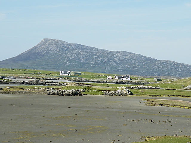 Seana Bhaile 'Seana Bhaile' means 'old town'. Beyond it is the shapely, albeit asymmetrical, cone of Eabhal (Eaval).